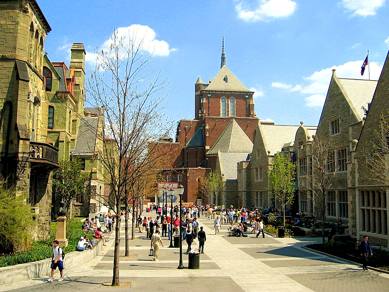 Wynn Common, where Logan Hall, College Hall, Houston Hall and Irvine Auditorium surround the area.